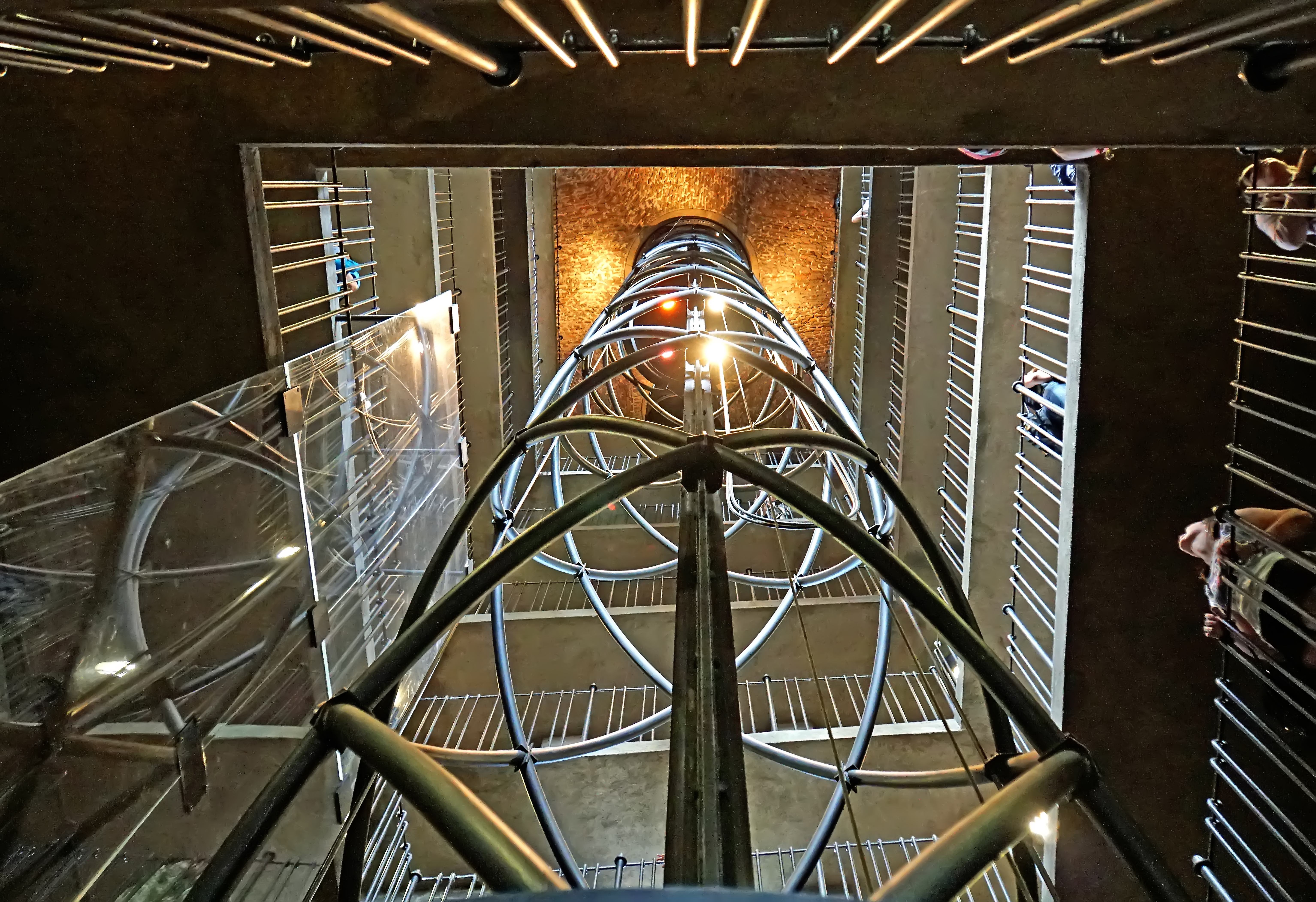 The elevator was great for getting to the top of the tower but there are stairs also with interesting displays to see, so walk down.